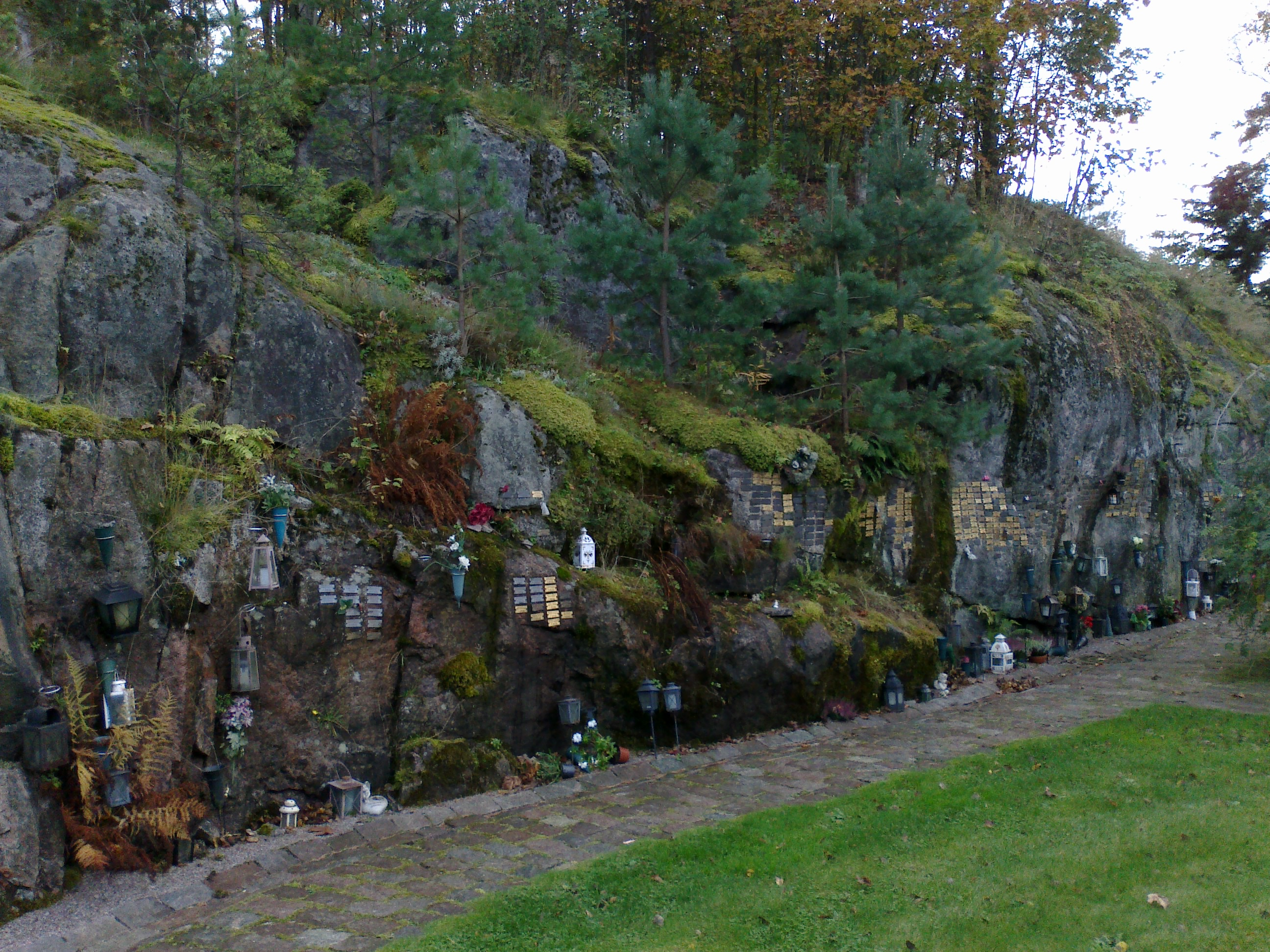 Malmi Graveyard